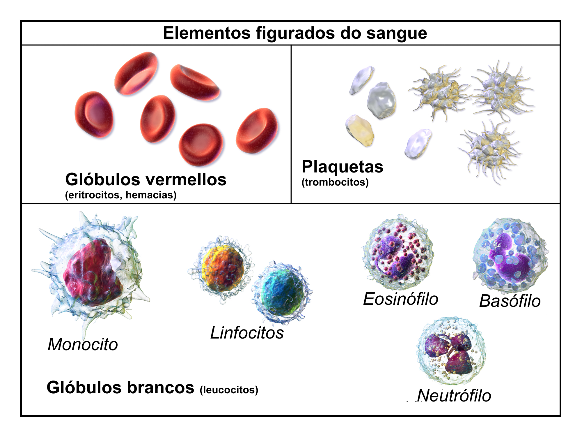 Blood cells